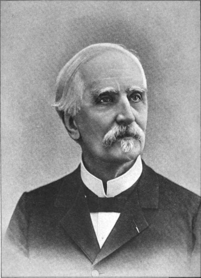 Anatole Jean-Baptiste Antoine de Barthélemy (1821-1904) French archeologist and numismatist